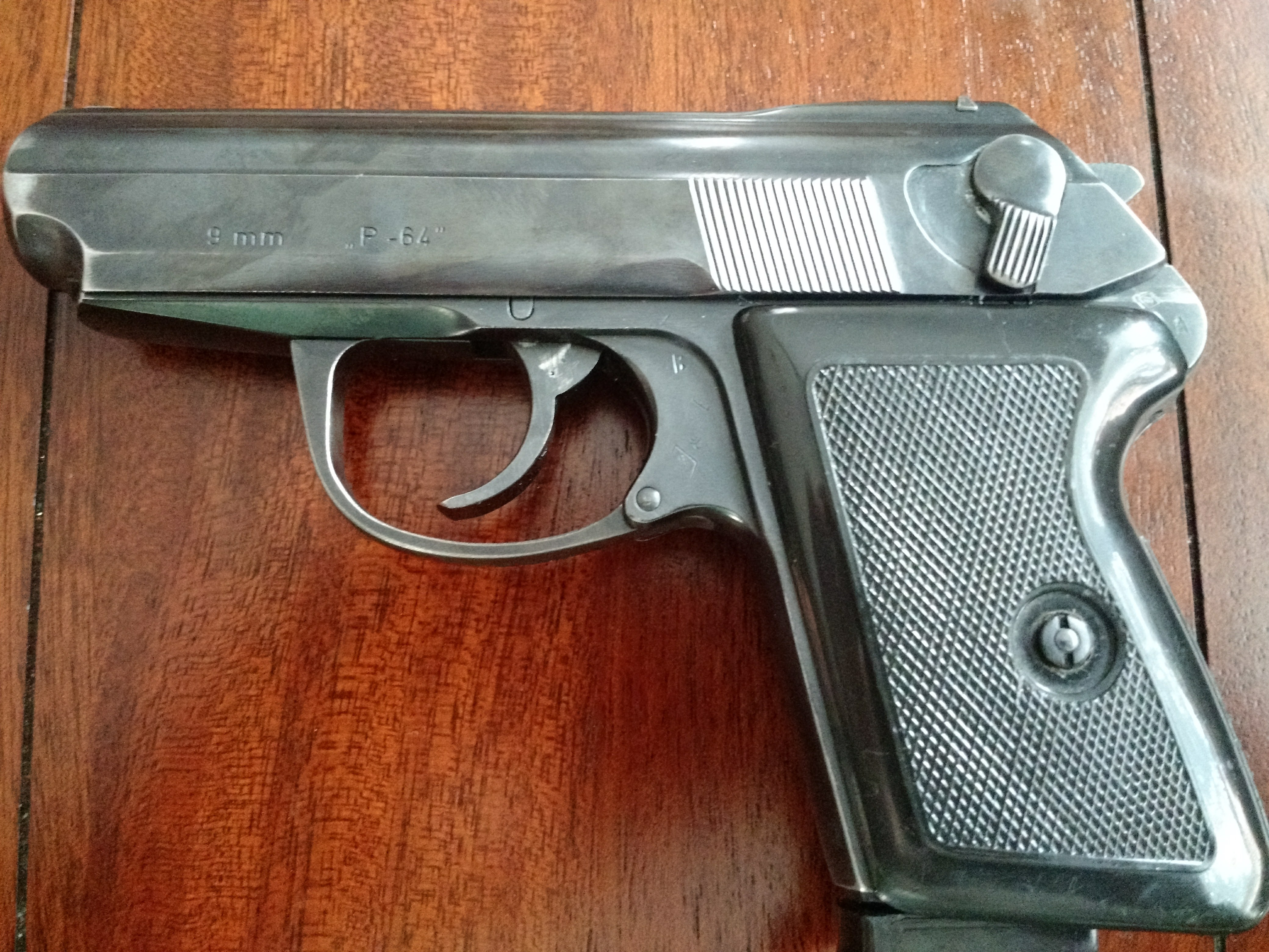 Surplus Polish P-64